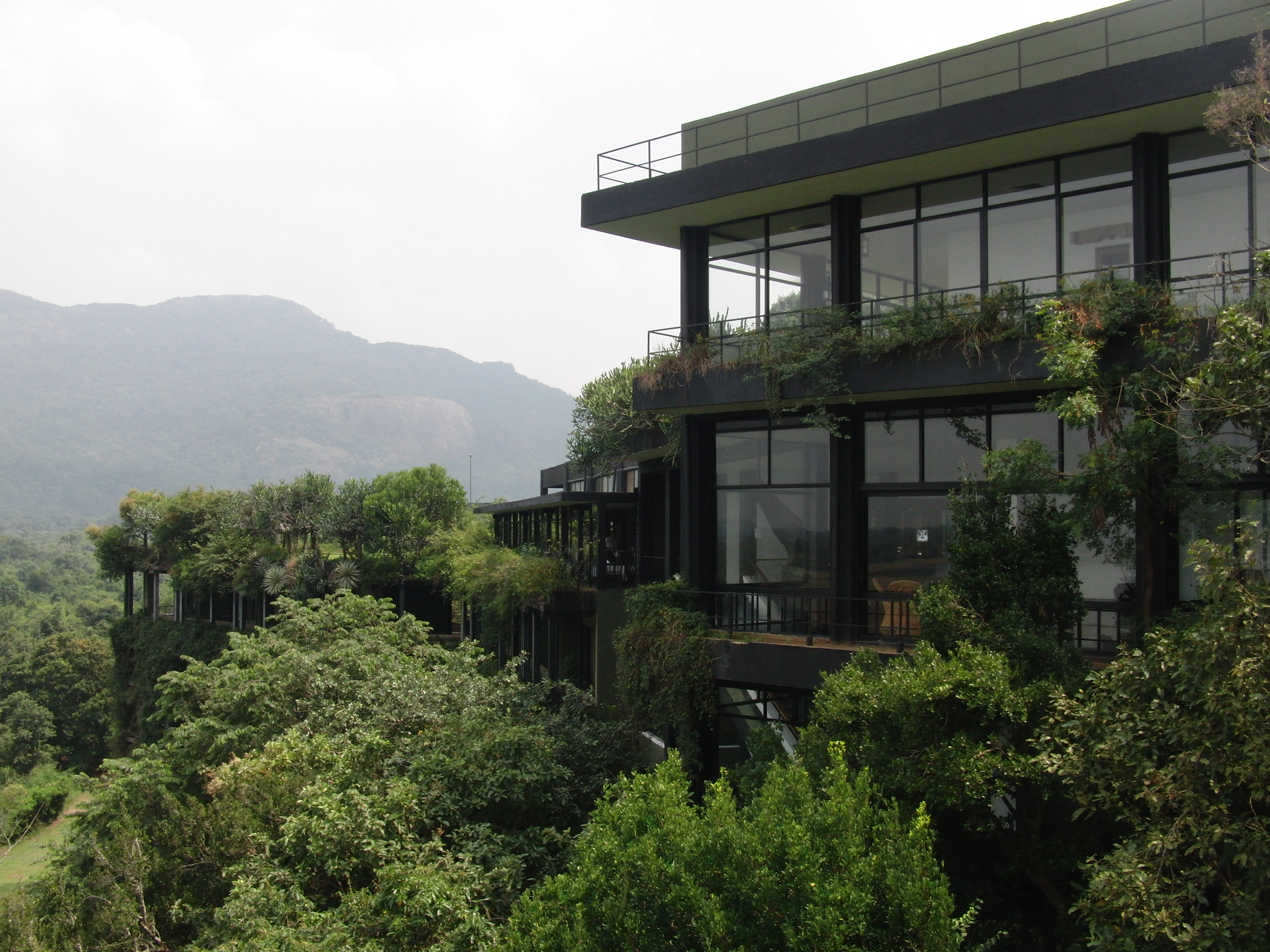 Kandalama Hotel, Dambulla of Sri Lanka build by Geoffrey Bawa in 1991.